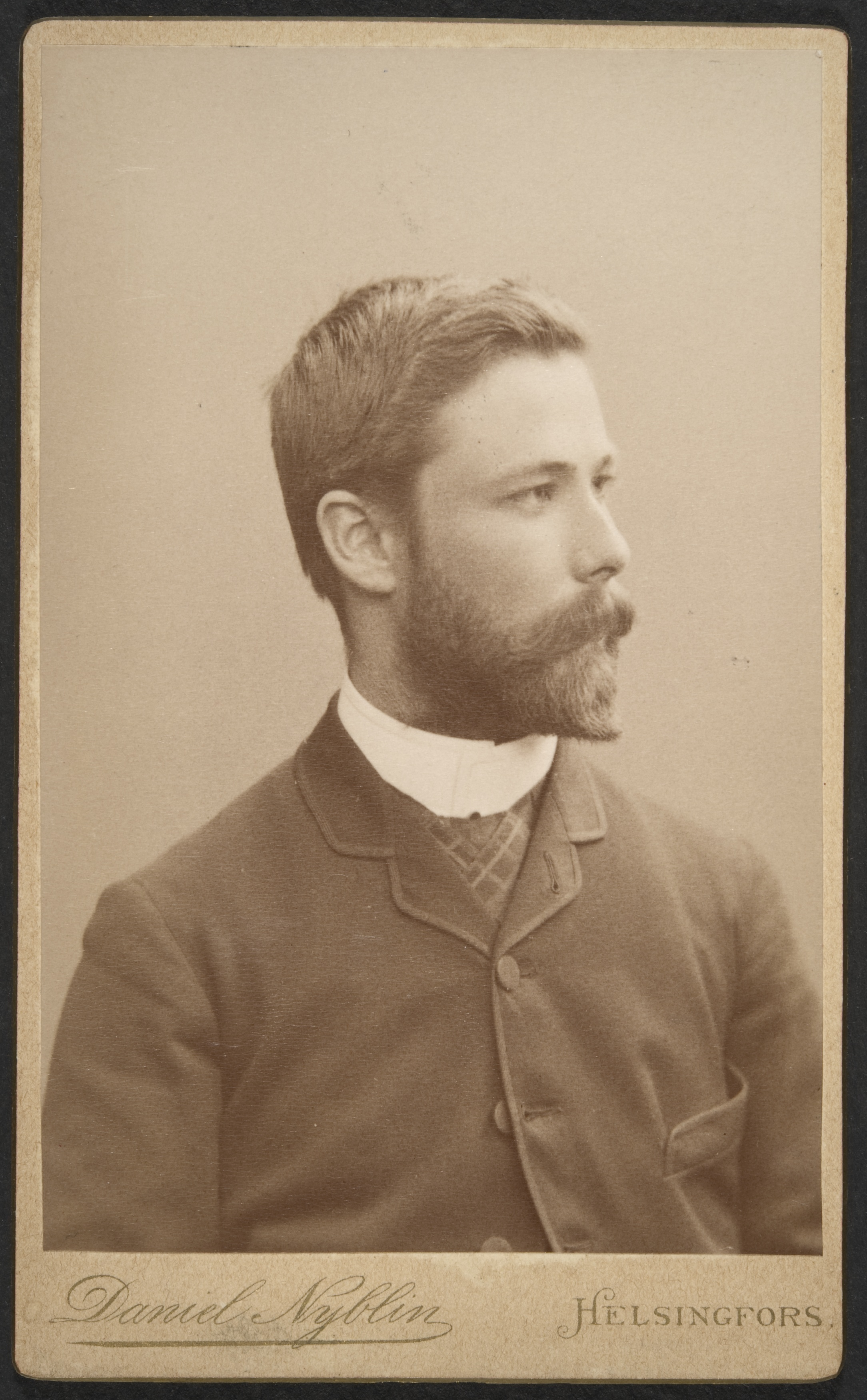 Photograph of the Finnish linguist Julio Reuter (1863–1937).